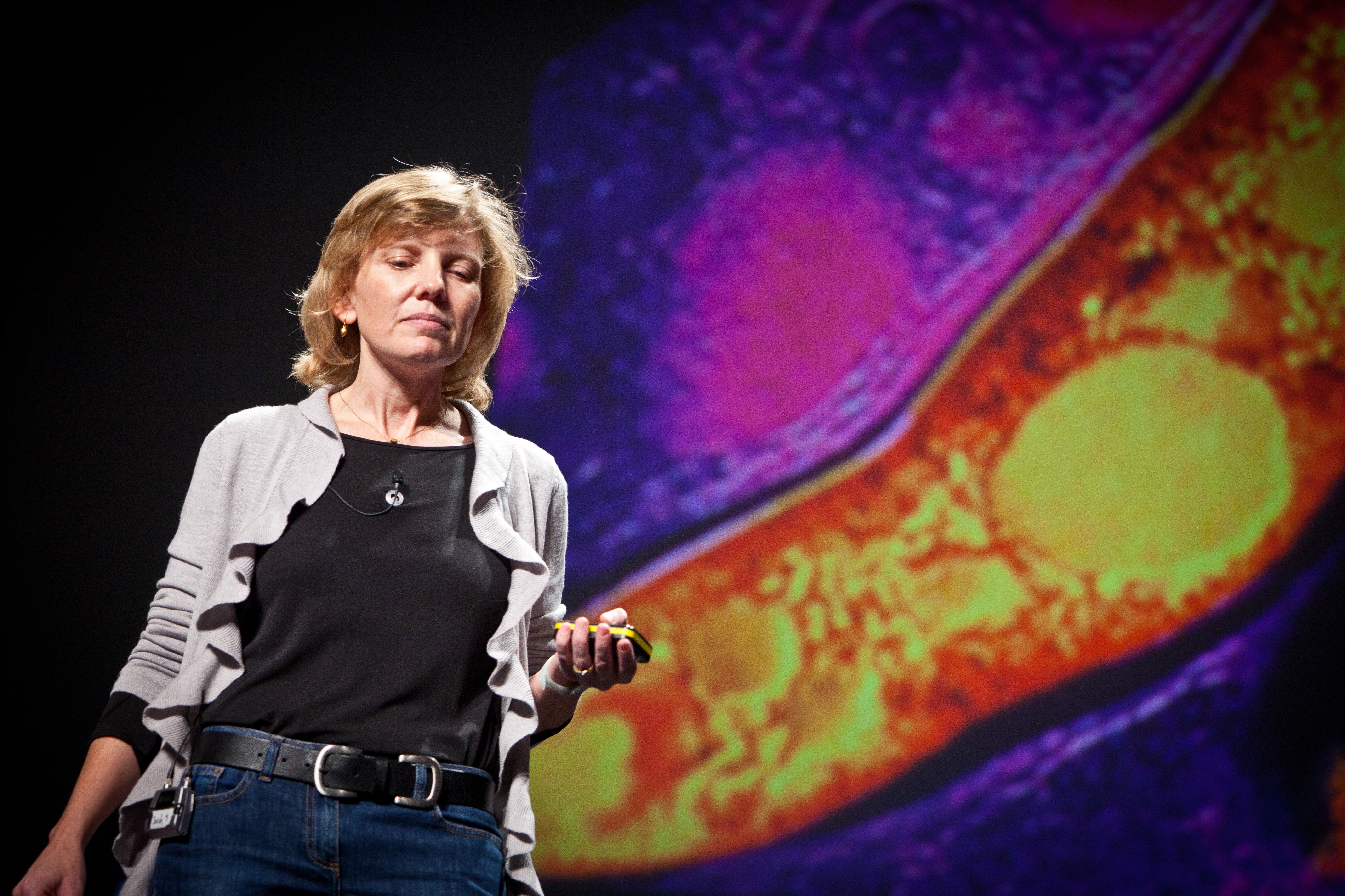 Sarah Fortune - PopTech 2010 - Camden, Maine